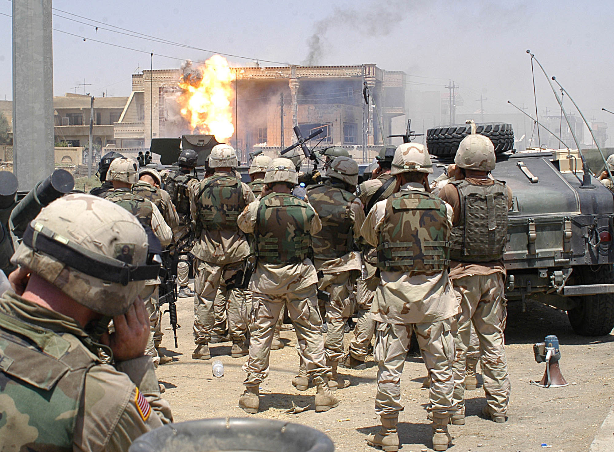 Flame erupts from a building hit with a TOW missile launched by soldiers of the Army's 101st Airborne Division (Air Assault) on July 22, 2003, in Mosul, Iraq. Saddam Hussein's sons Qusay and Uday were killed in a gun battle as they resisted efforts by coalition forces to apprehend and detain them.